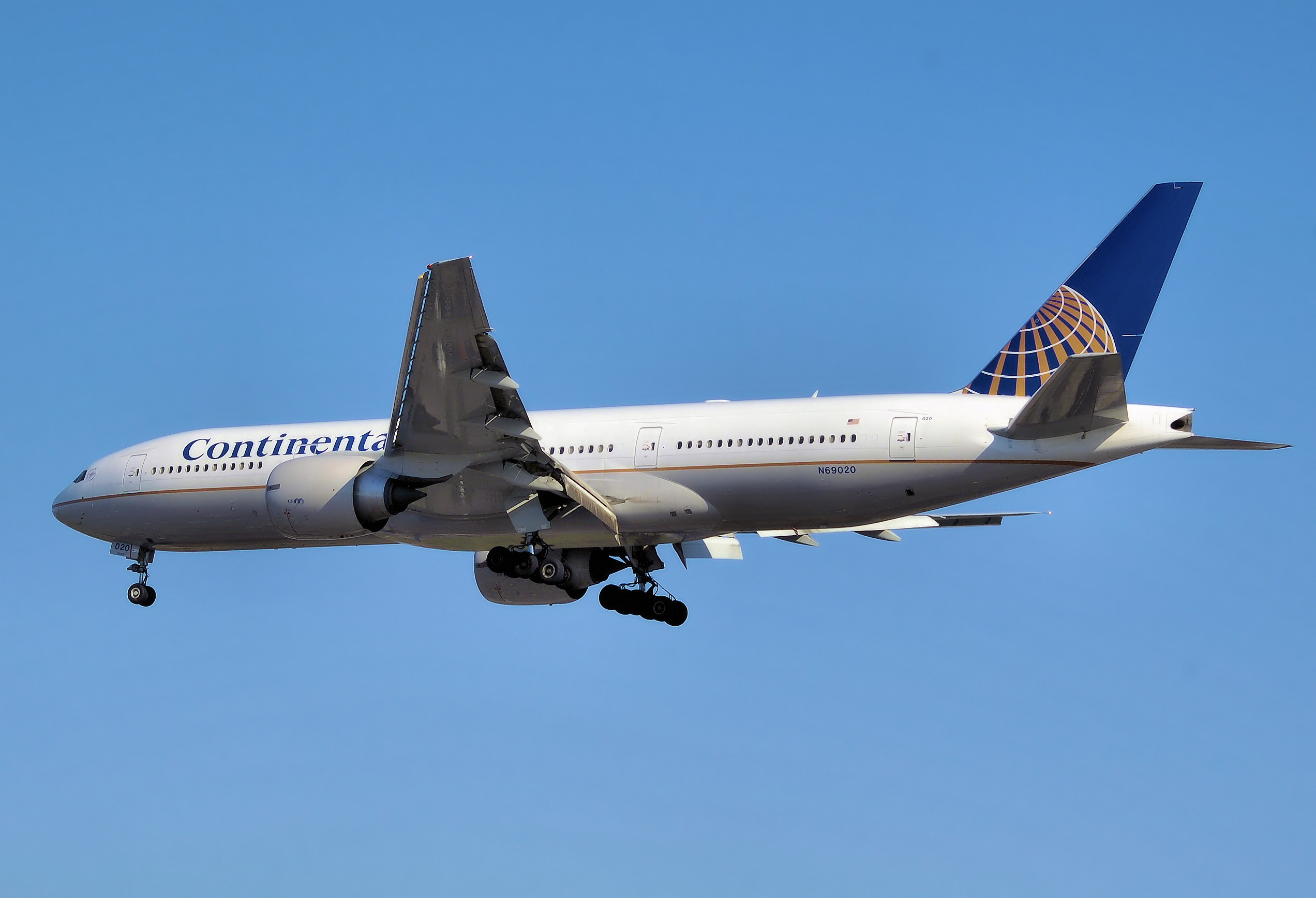 Continental Airlines Boeing 777-200 (N69020) lands at London Heathrow Airport, England.